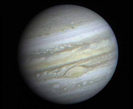 This recent photo of Jupiter taken by the television cameras aboard NASA's Voyager 1 is dominated by the Great Red Spot. Although the spacecraft is still 34 million miles (54 million kilometers) from a March 5 closest approach, Voyager's cameras already reveal details within the spot that aren't visible from Earth. An atmospheric system larger than Earth and more than 300 years old, the Great Red Spot remains a mystery and a challenge to Voyager's instruments. Swirling, storm-like features possibly associated with wind shear can be seen both to the left and above the Red Spot. Analysis of motions of the features will lead to a better understanding of weather in Jupiter's atmosphere. This photo was taken January 9, 1979. Tagalog: Ito kamakailang larawan ng Hupiter na kinunan ng camera ng telebisyon habang sakay ng NASA biyahero 1 ay dominado ng Great Red Spot. Kahit na ang spacecraft ay 34 milyong milya (54 milyong kilometro) mula sa isang Marso 5 pinakamalapit na diskarte pa rin, manlalakbay ng mga camera na ipakita ang mga detalye sa loob ng lugar na hindi nakikita mula sa Daigdig. An atmospheric sistema mas malaki kaysa sa Earth at higit sa 300 taong gulang, ang Great Red Spot ay nananatiling isang misteryo at isang hamon sa mga instrumento biyahero ni. Swirling, bagyo-tulad ng mga tampok posibleng nauugnay sa wind shear ay makikita sa parehong sa kaliwa at sa itaas ng Red Spot. Pagtatasa ng mga galaw ng mga tampok ay hahantong sa isang mas mahusay na pag-unawa ng panahon sa kapaligiran ng Hupiter. Ang larawang ito ay kinuha sa Enero 9, 1979.